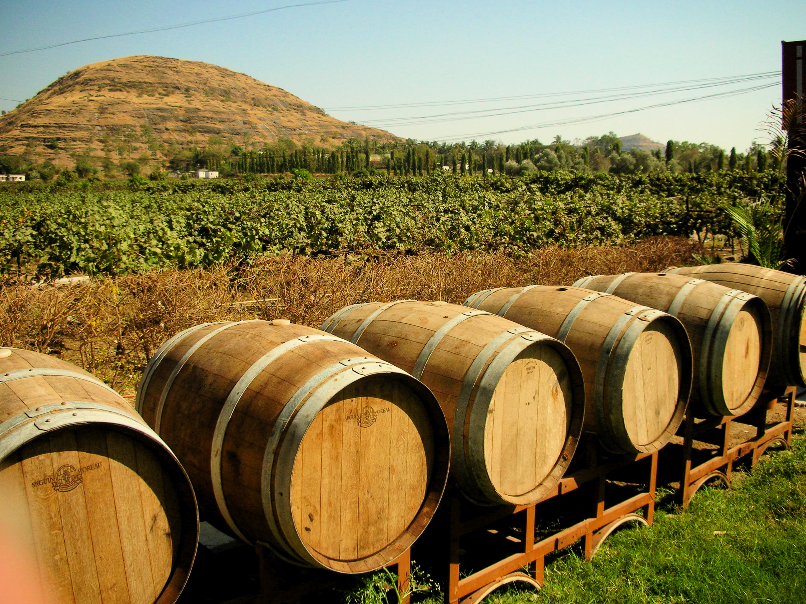 India Winery